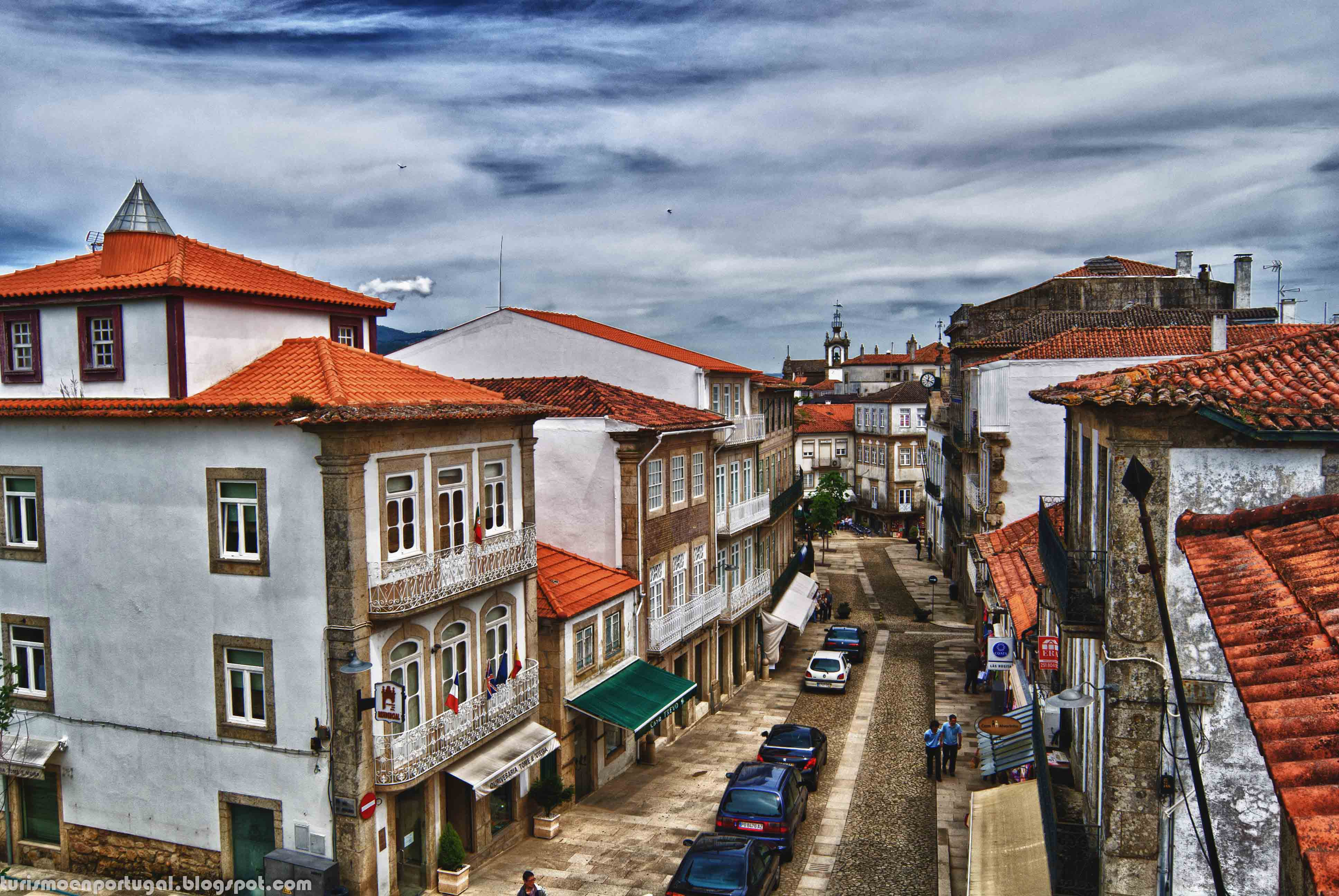 Street in Valença do Minho, Viana do Castelo, Portugal